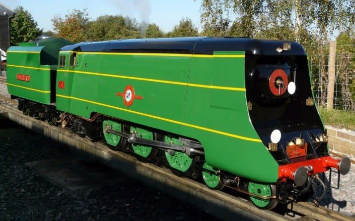 Channel Packet